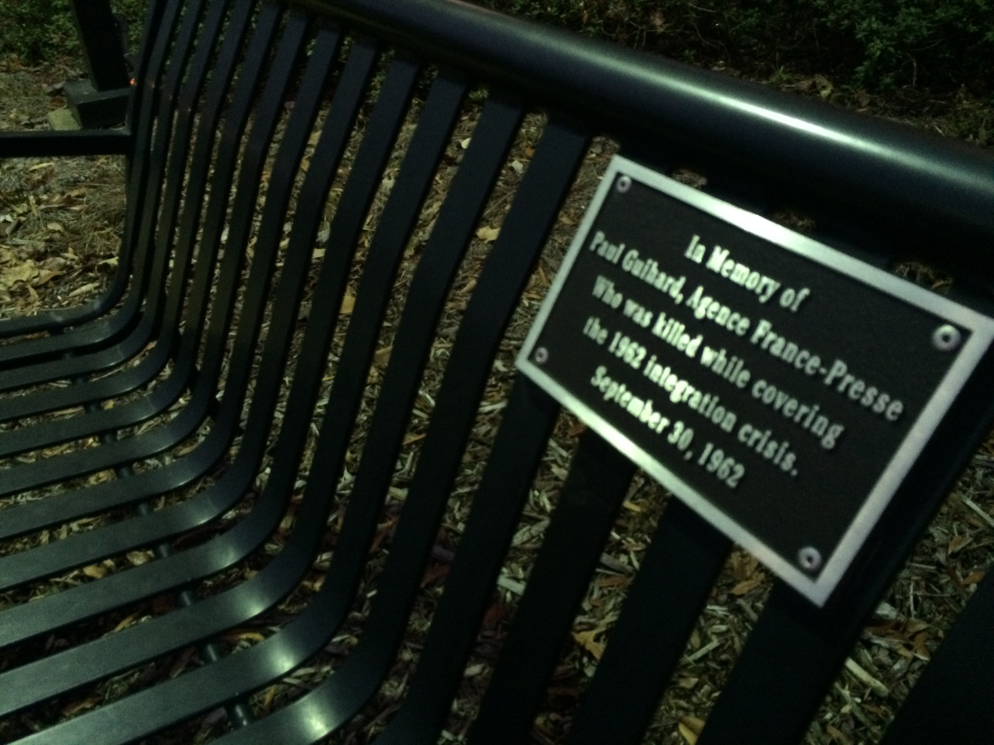 A bench outside the Meek School of Journalism and New Media on the Ole Miss campus dedicated to Paul Guihard, a journalist for the Agence France-Presse that was killed during the 1962 riots on campus. Guihard is the only known journalist to have been killed during the Civil Rights Movement